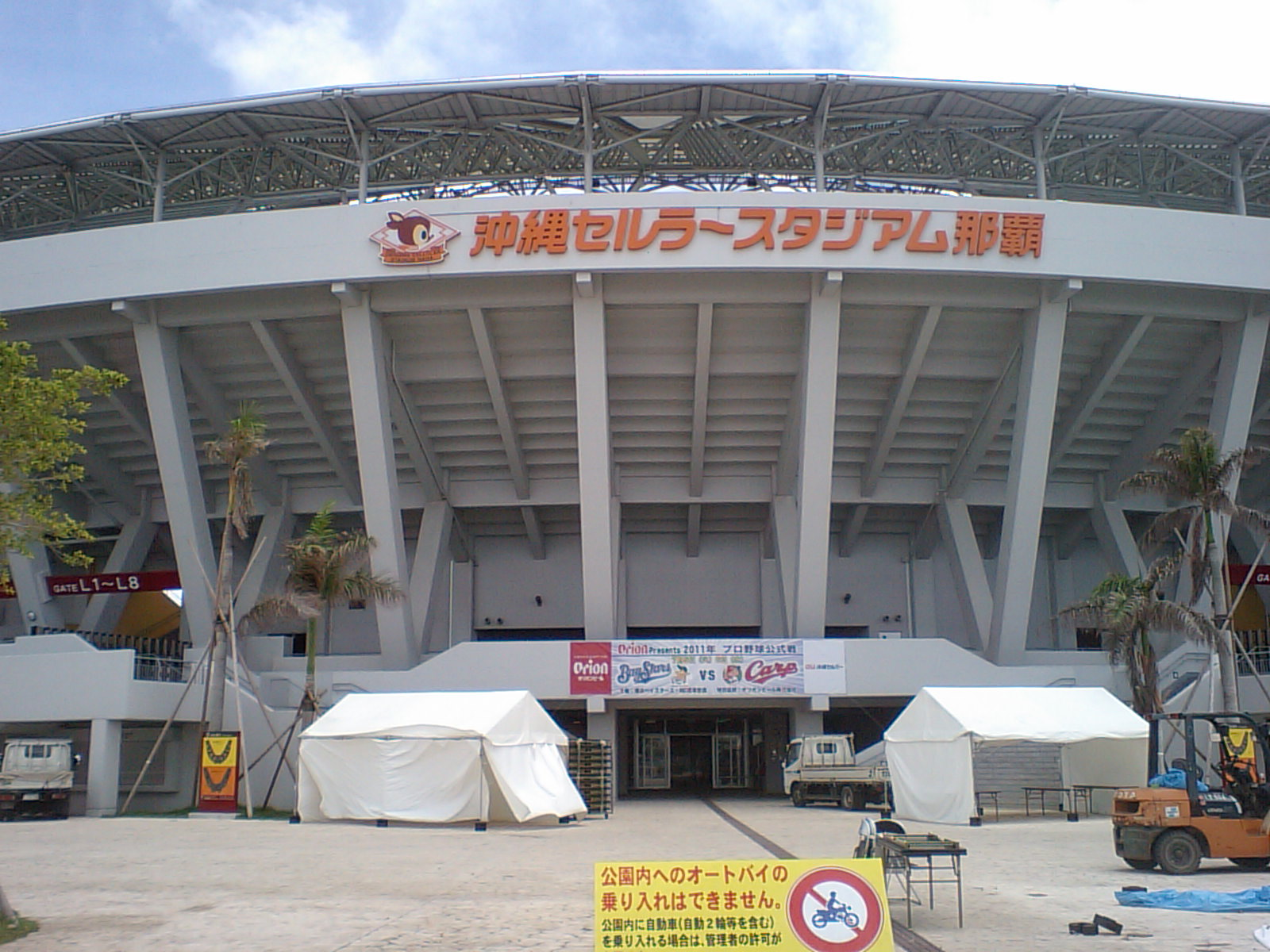 okinawa sellular stadium naha in 2010 summer